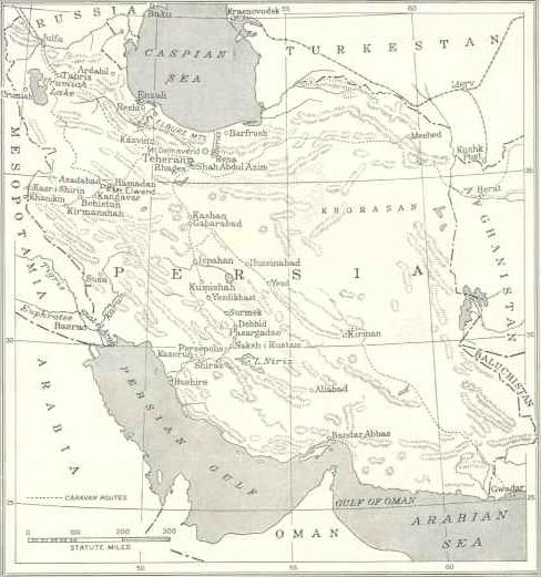 Persian Caravan Sketches by Harold F. Weston, The National Geographic Magazine, April 1921